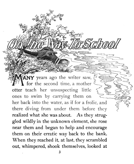 Illustration of chapter heading "On the Way to School" by Charles Copeland, included in the book School of the Woods by American naturalist and author William J. Long.